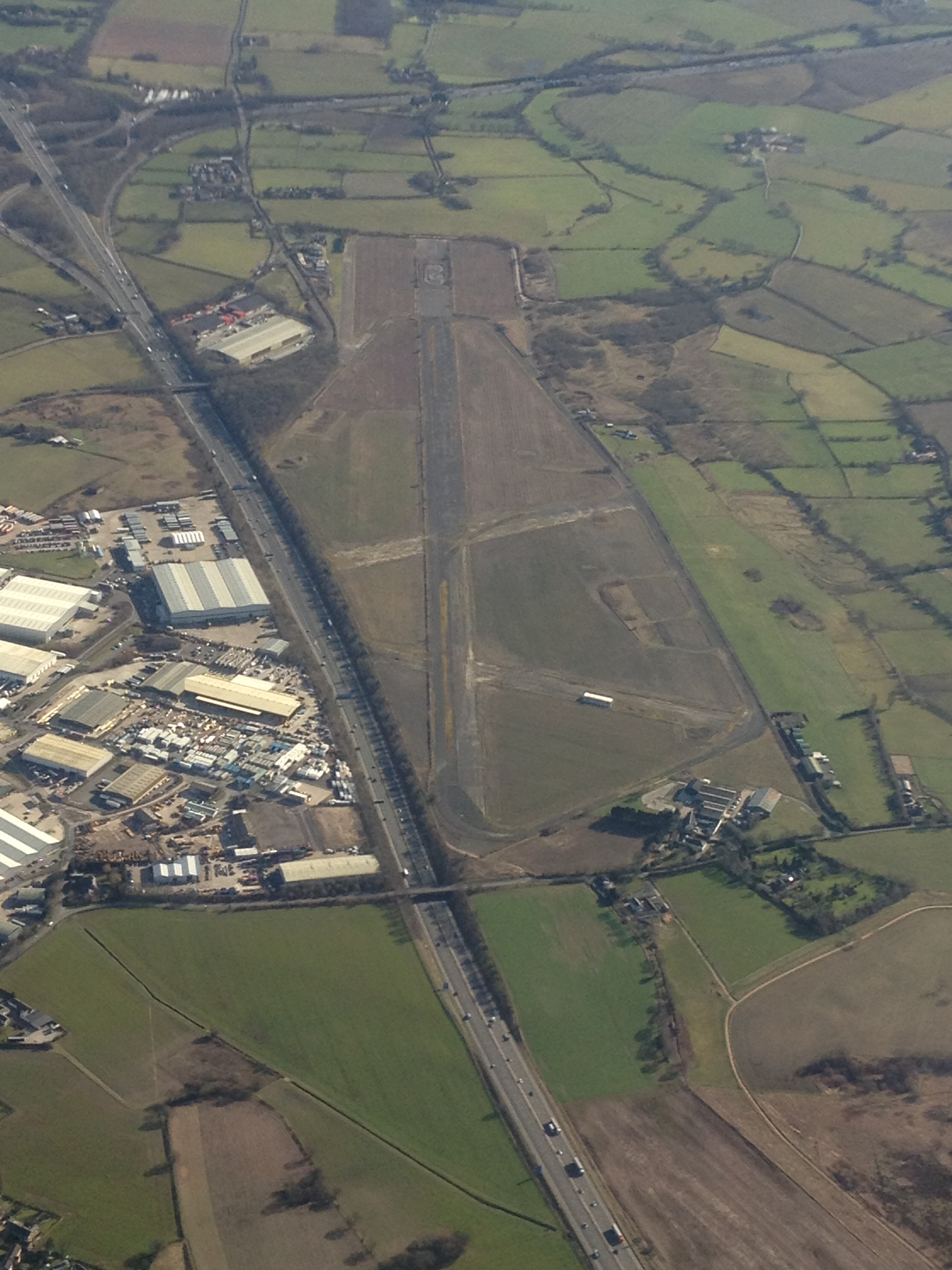 Aerial picture of RNAS Stretton (HMS Blackcap)